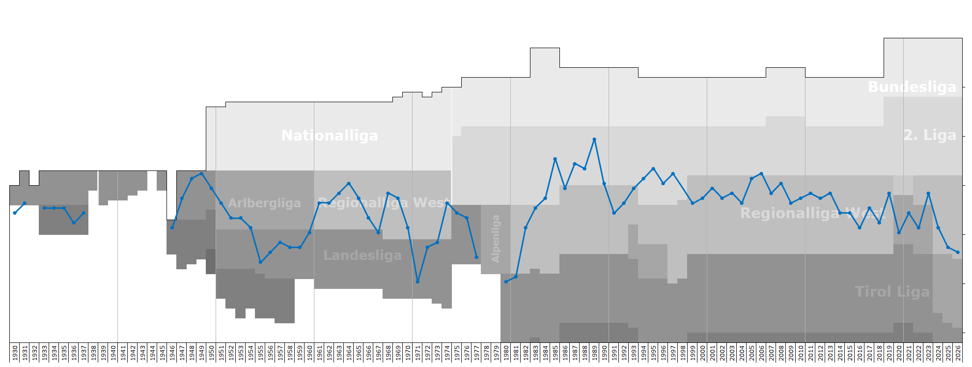 Chart of end-season table positions of FC Kufstein in the Austrian football league system. Data source: RSSSF, , regiowiki.at, tfv.at, wikipedia